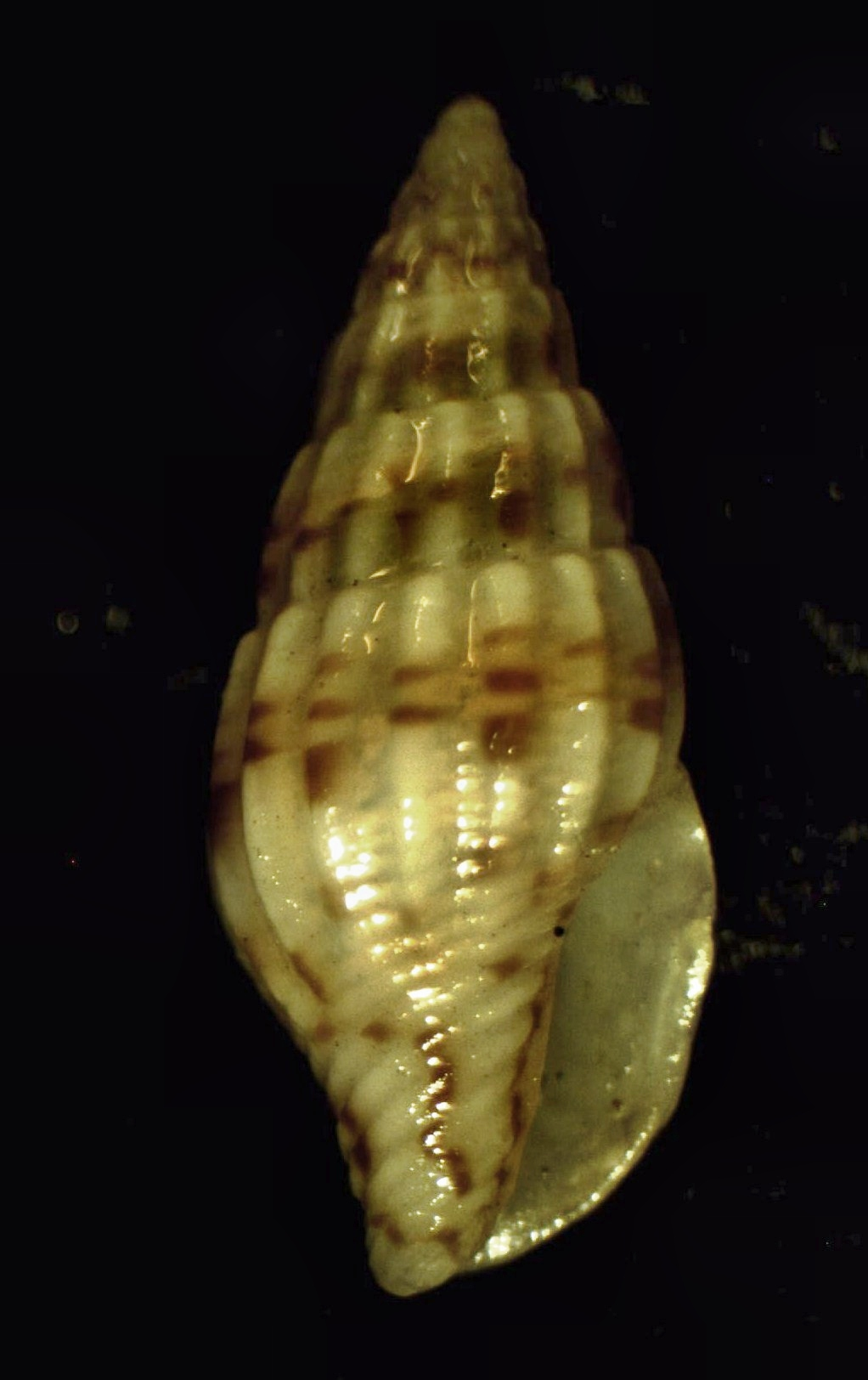 Costoanachis sparsa (Reeve, 1859) (synonym: Anachis sparsa L. A. Reeve, 1859), a dove snail from the family Columbellidae; Brazil